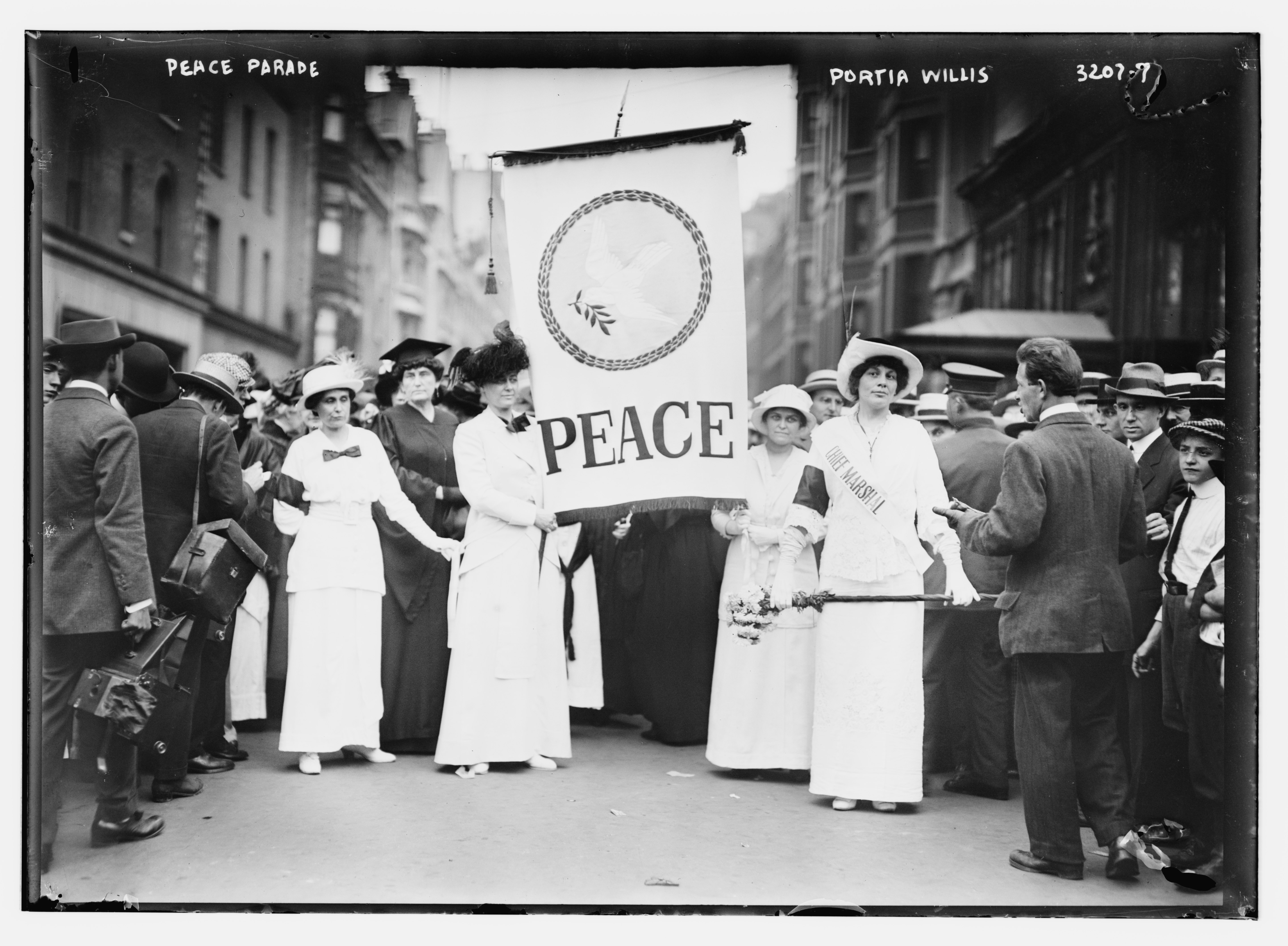 Title: Peace Parade, Portia Willis Abstract/medium: 1 negative : glass ; 5 x 7 in. or smaller.